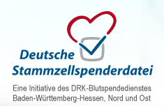 It is the logo of the a German bone marrow database